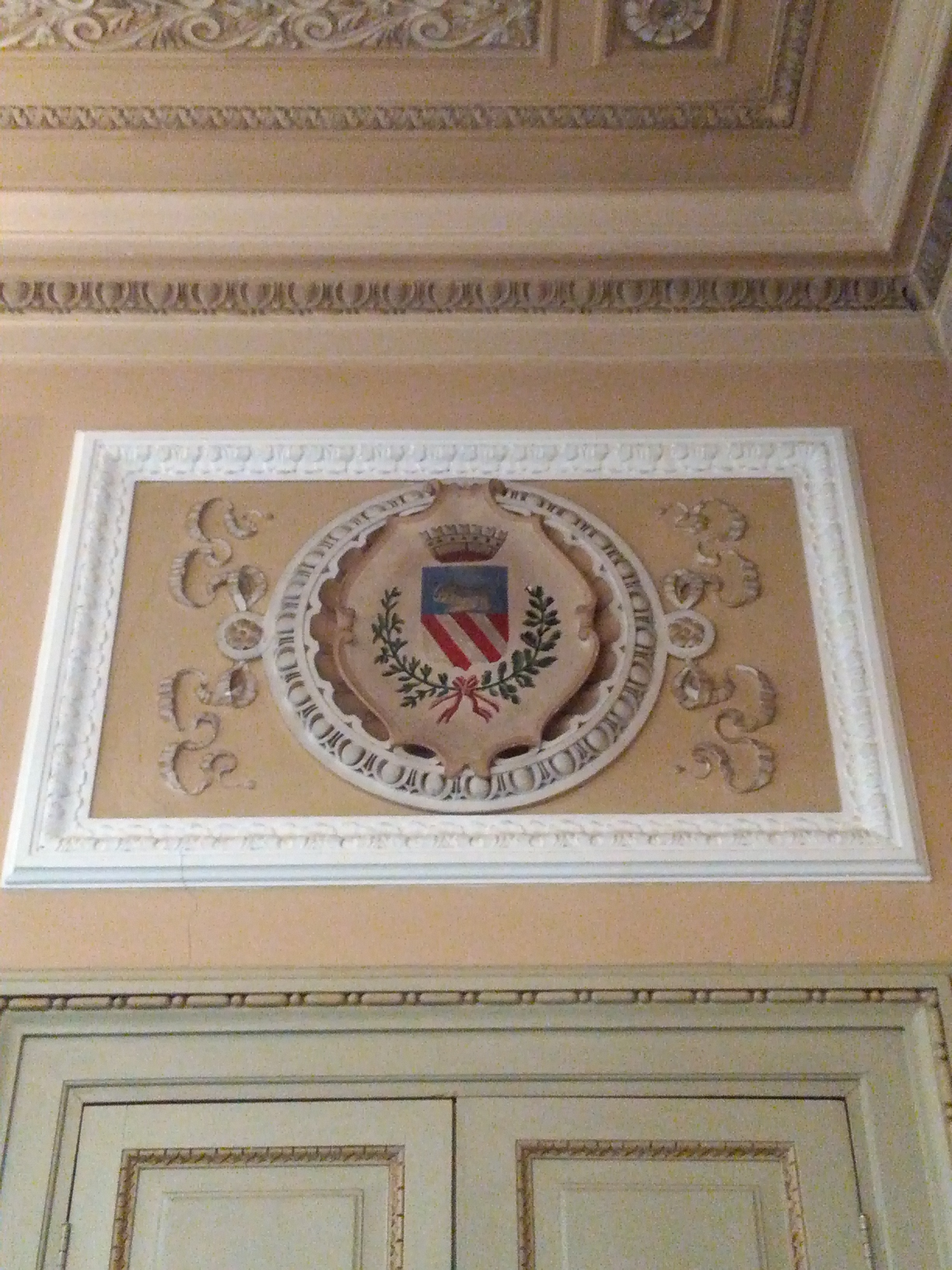 Lissone_VillaMagatti_Lissone